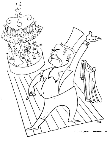 Caricature of Kurt Gerron in Karussell, the cabaret he created in the Theresienstadt concentration camp.